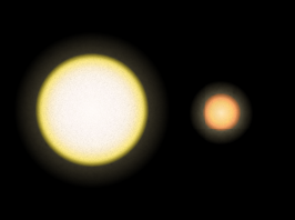 The relative size of the Sun and red dwarf Gliese 581.